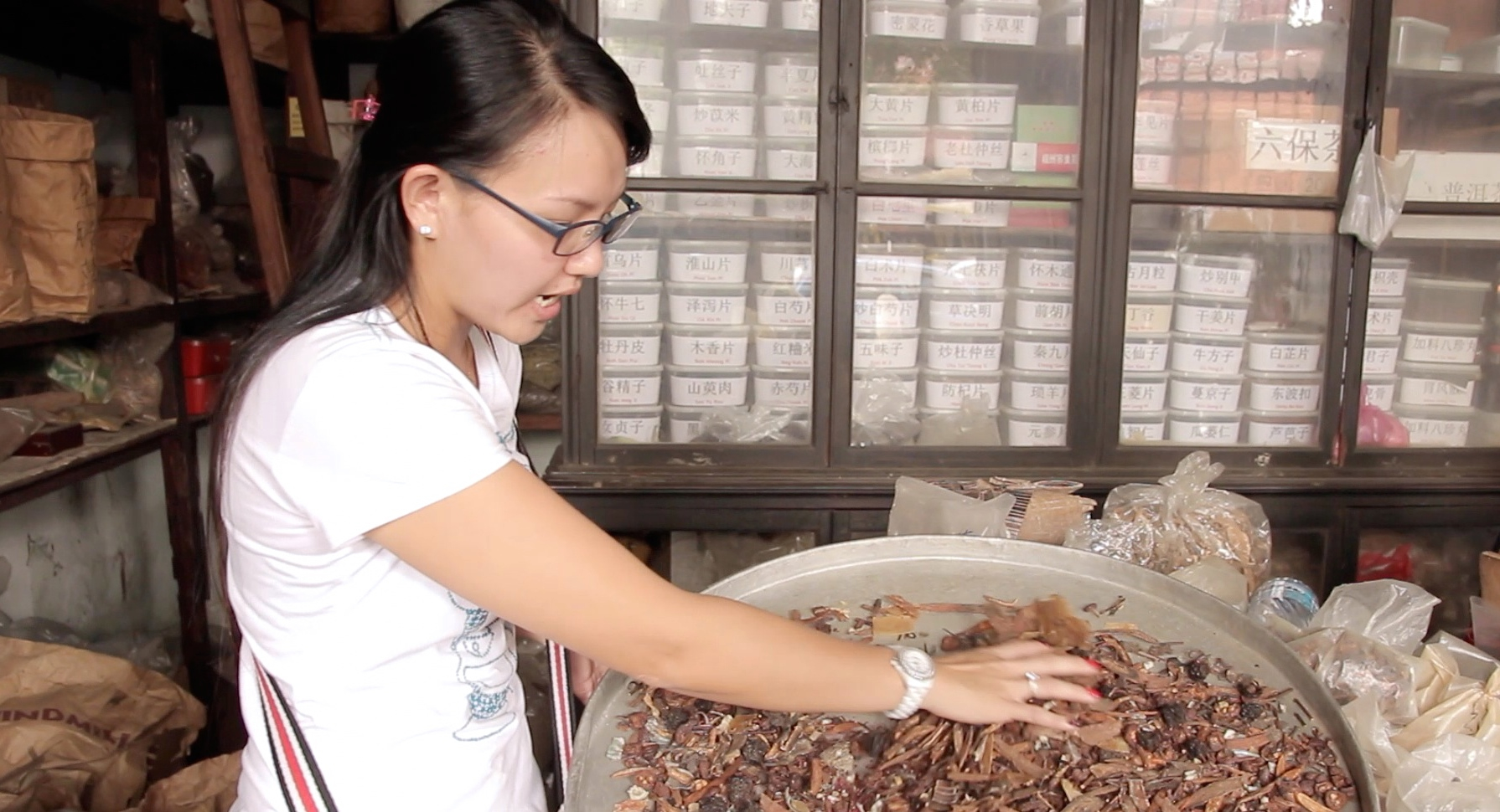 Watch Vivian grid and cut up dried herbs to make traditional Chinese medicine - just as her father did in years past.